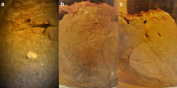 Frédéric Chopin's heart was exhumed and photographed in April 2014 to determine the composer's malady. Michaeł Witt et al. identified evidence of tuberculosis in these photographs: a. tuberculomas; b. "bread and butter" appearance; c. "frosted heart" appearance